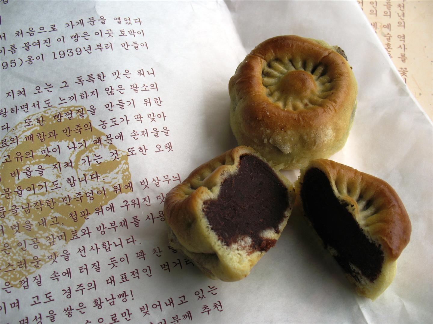 Hwangnam bread (aka Gyeongju bread). Filling: red bean paste. A locally-made pastry famous in Gyeongju, South Korea.